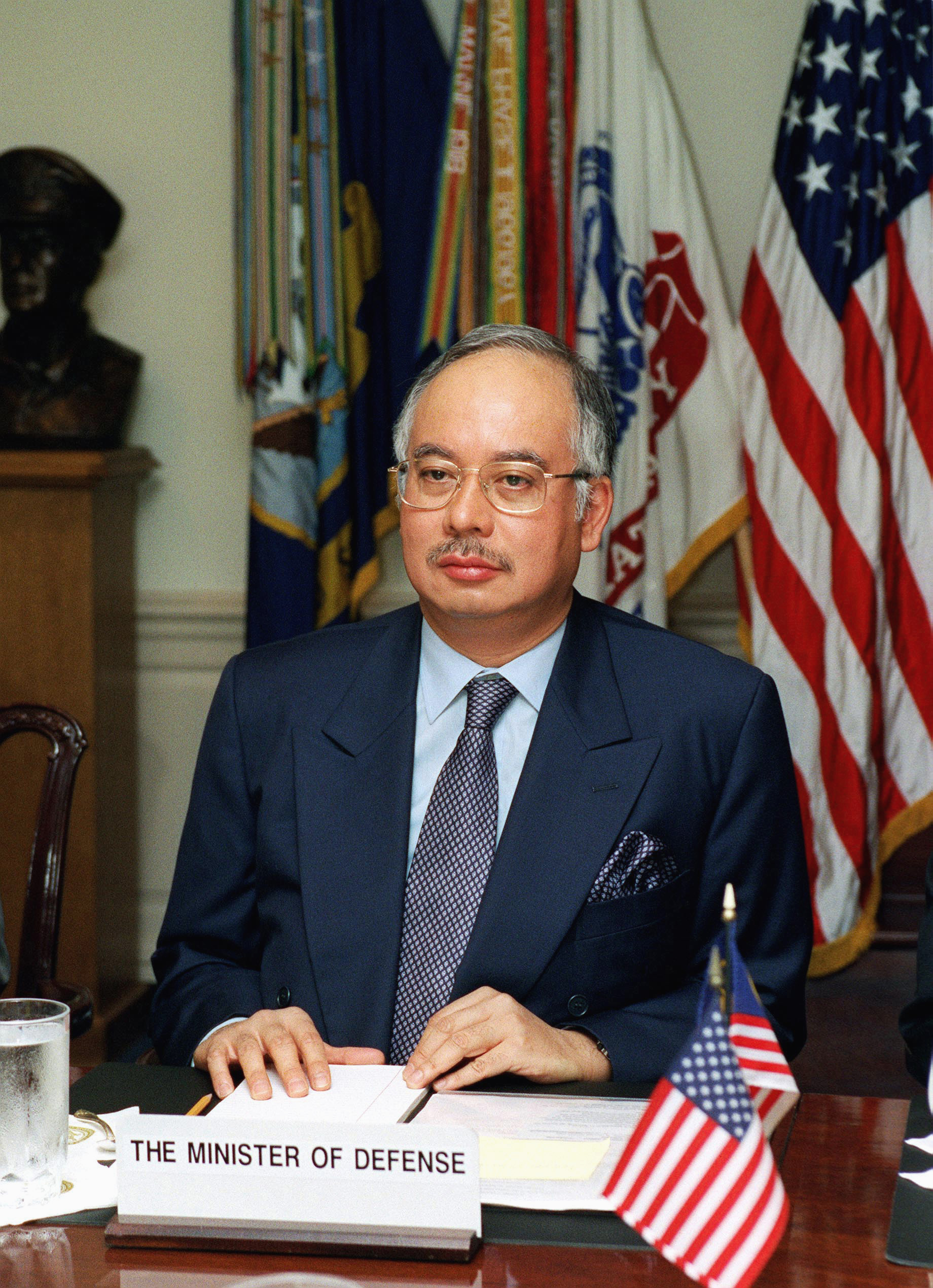 Malaysian Minister of Defense, Najib Razak, pictured during a defense meeting held at the Pentagon in Washington, District of Columbia (DC).